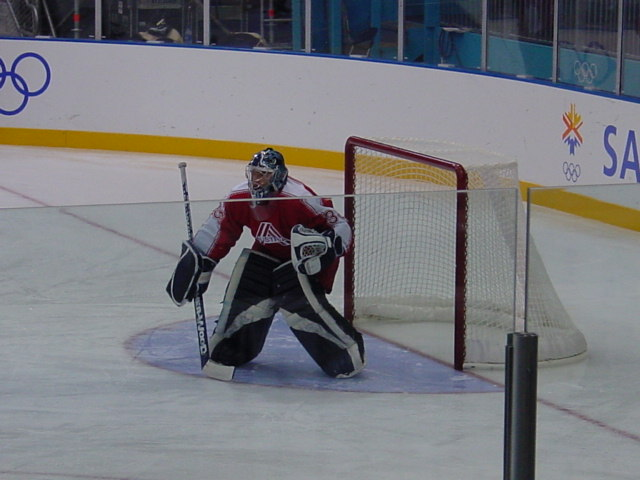 Reinhard Divis, Austrian ice hockey goaltender @ Winter Olympics 2002, February 9, 2002, Provo Utah, Austria vs LatviaAustria vs Latvia